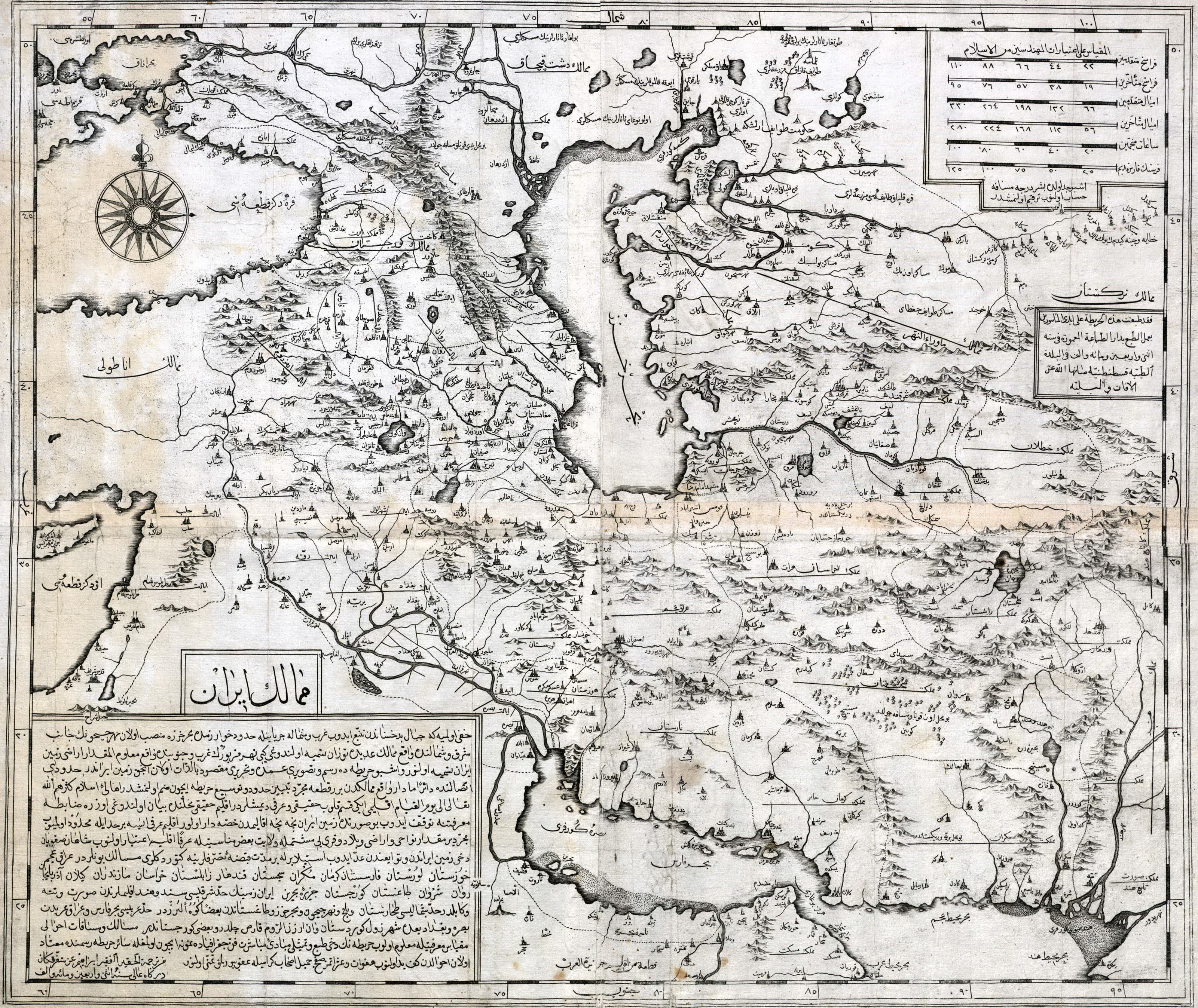 The map of the Persian Empire in 1729 at the time of safavid Dynasty